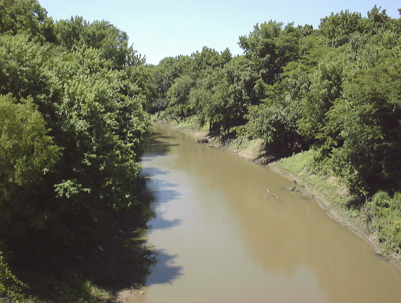 The Marmaton River near Nevada.